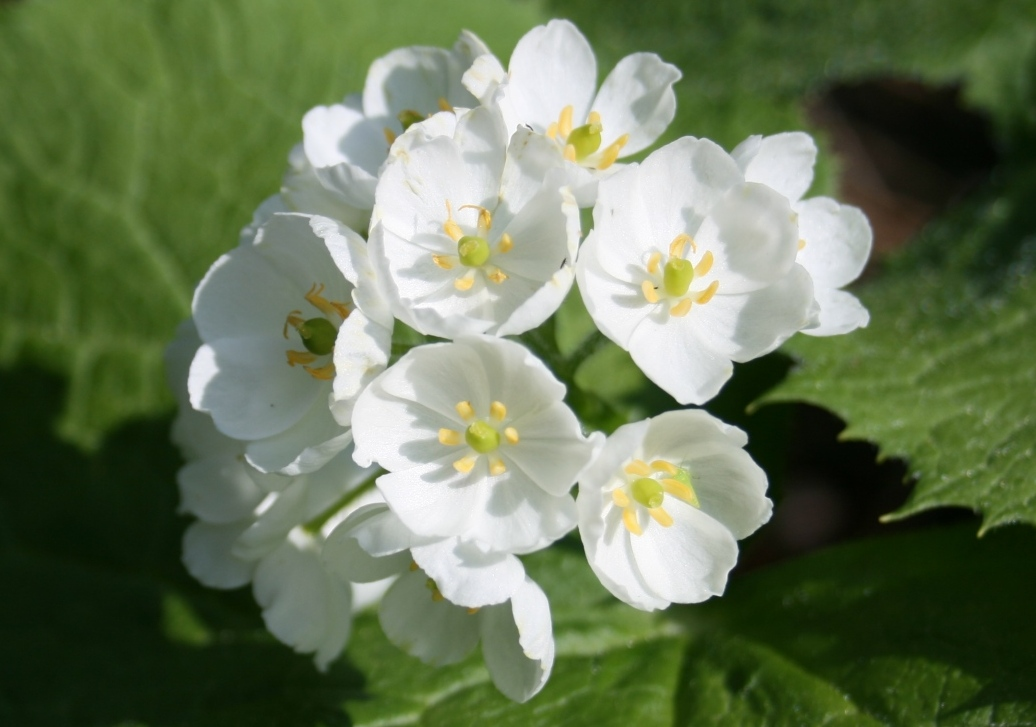 Diphylleia_grayi_Sankayou_in_Ninomine_hakusan_2009-9-6-25